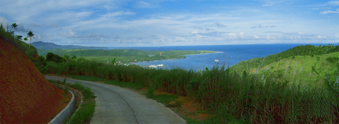 Matnog Bayview at Sorsogon, Philippines